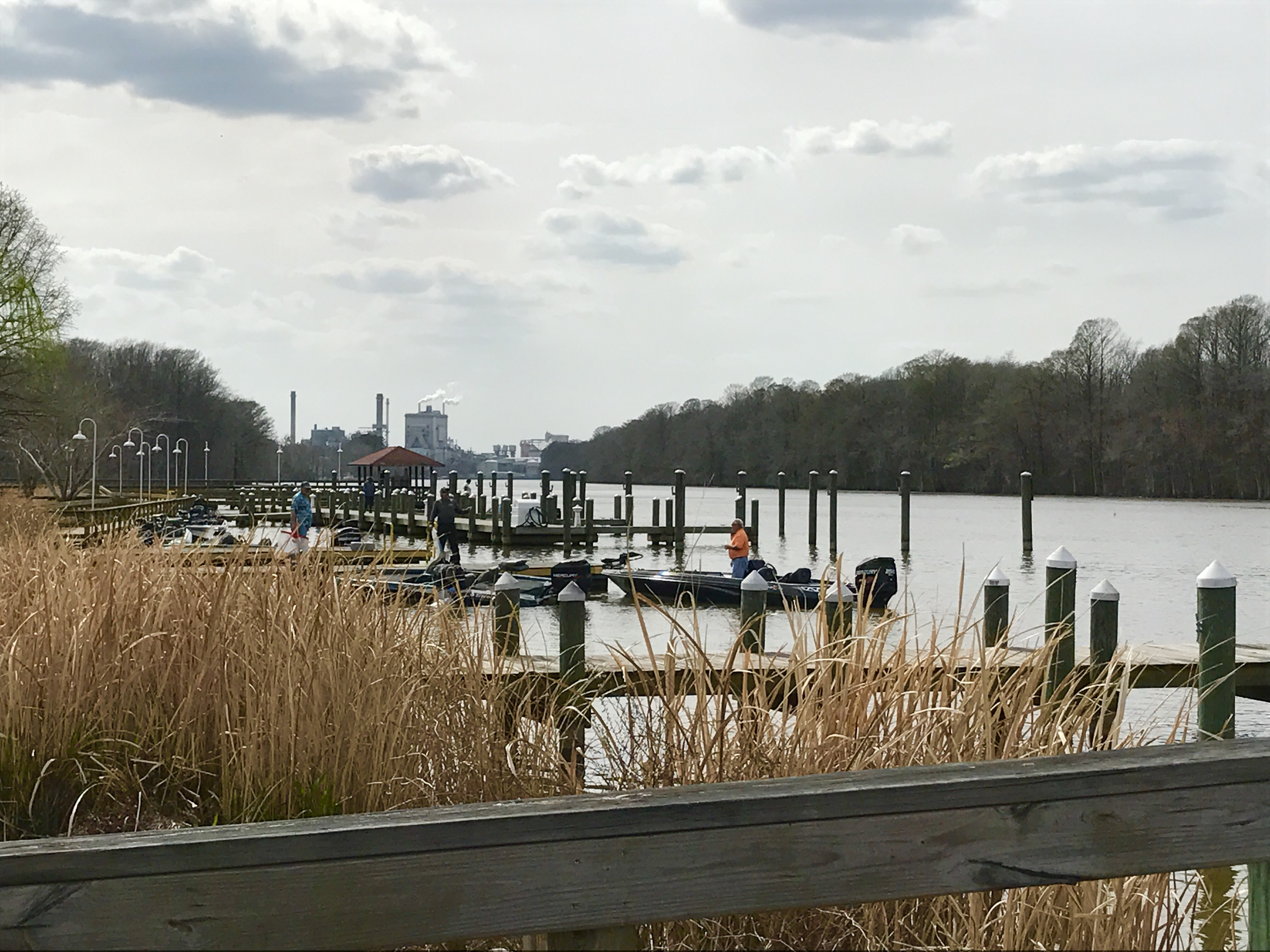 Roanoke River in Plymouth, North Carolina. The Domtar Paper Company paper/saw mill is in the background.